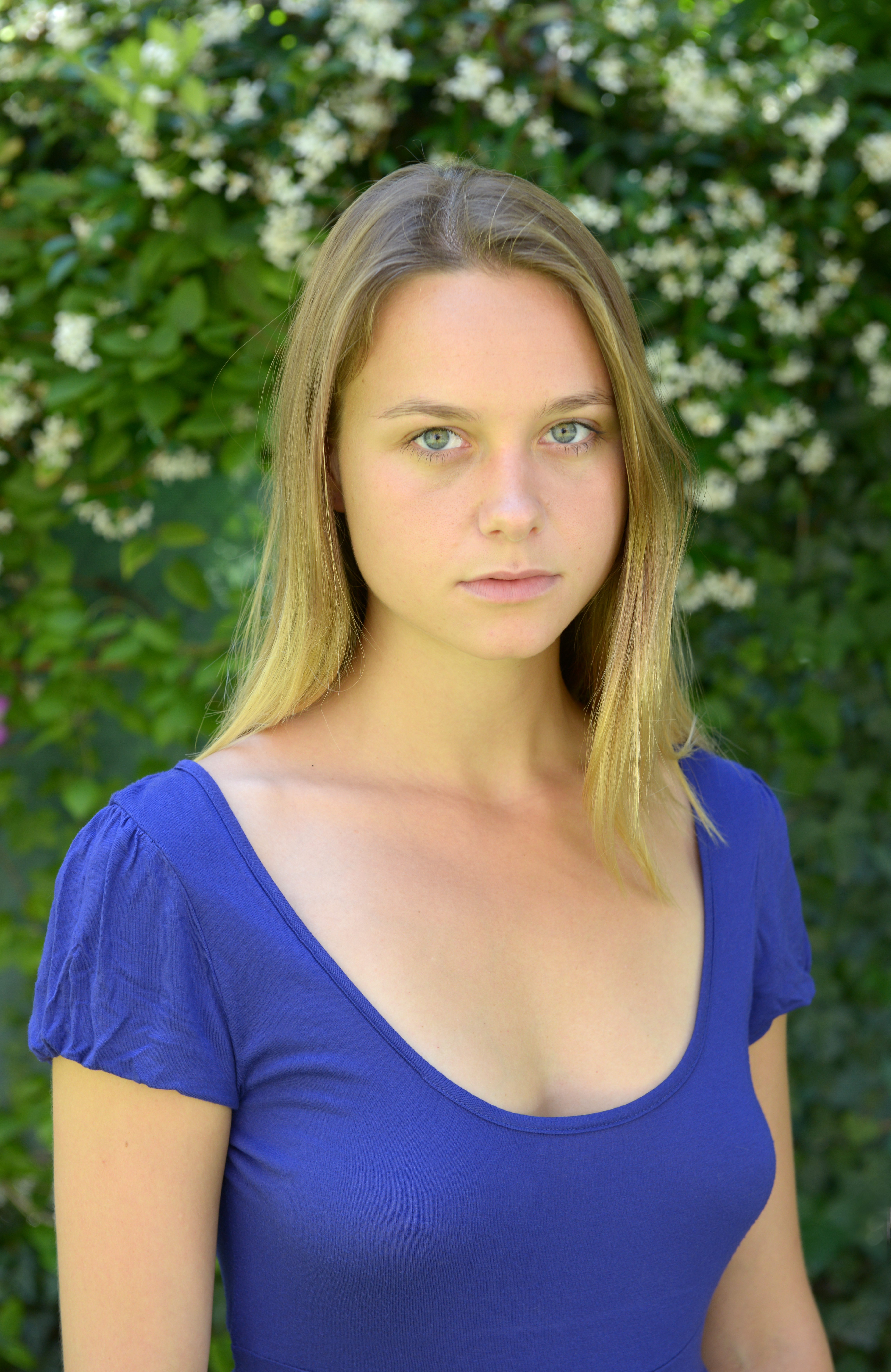 Actress Anna Unterberger at a private location in her hometown Bolzano